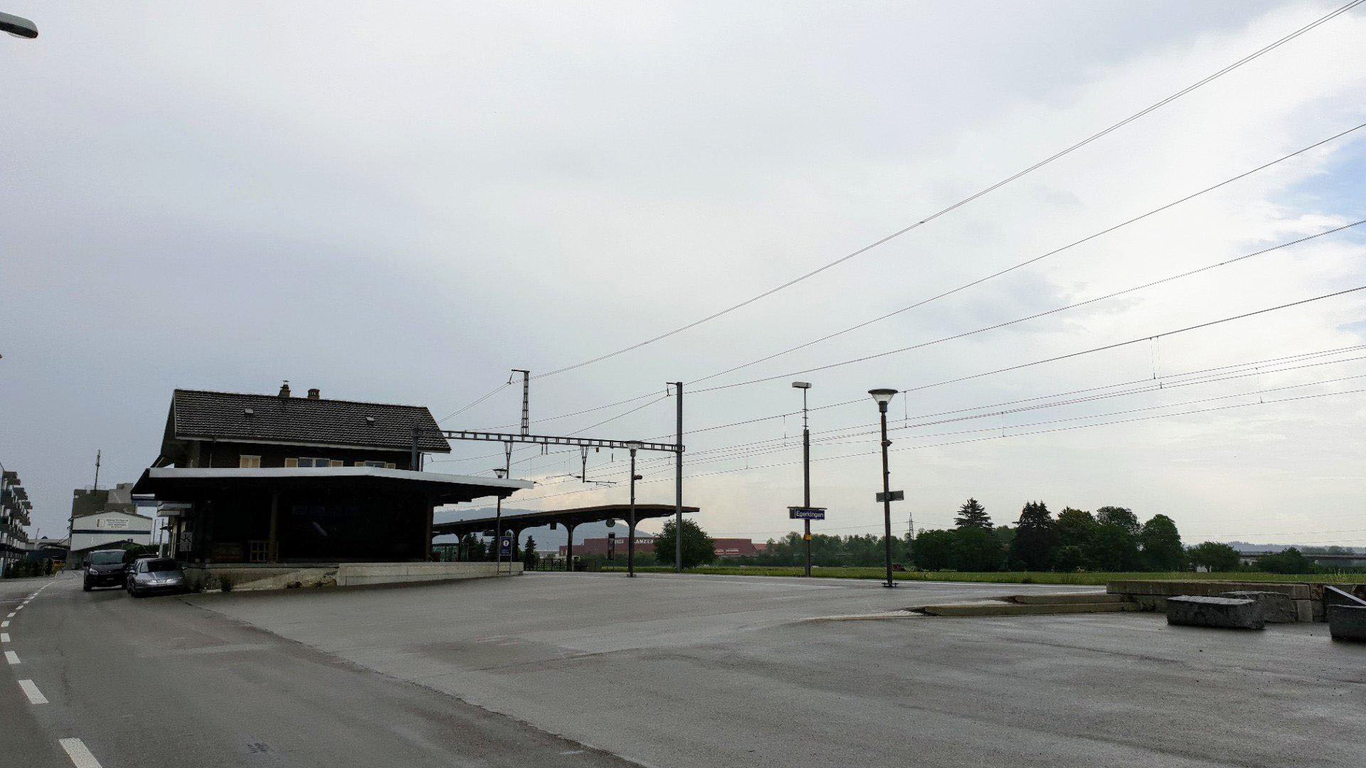 Egerkingen railway station in Egerkingen, Switzerland.